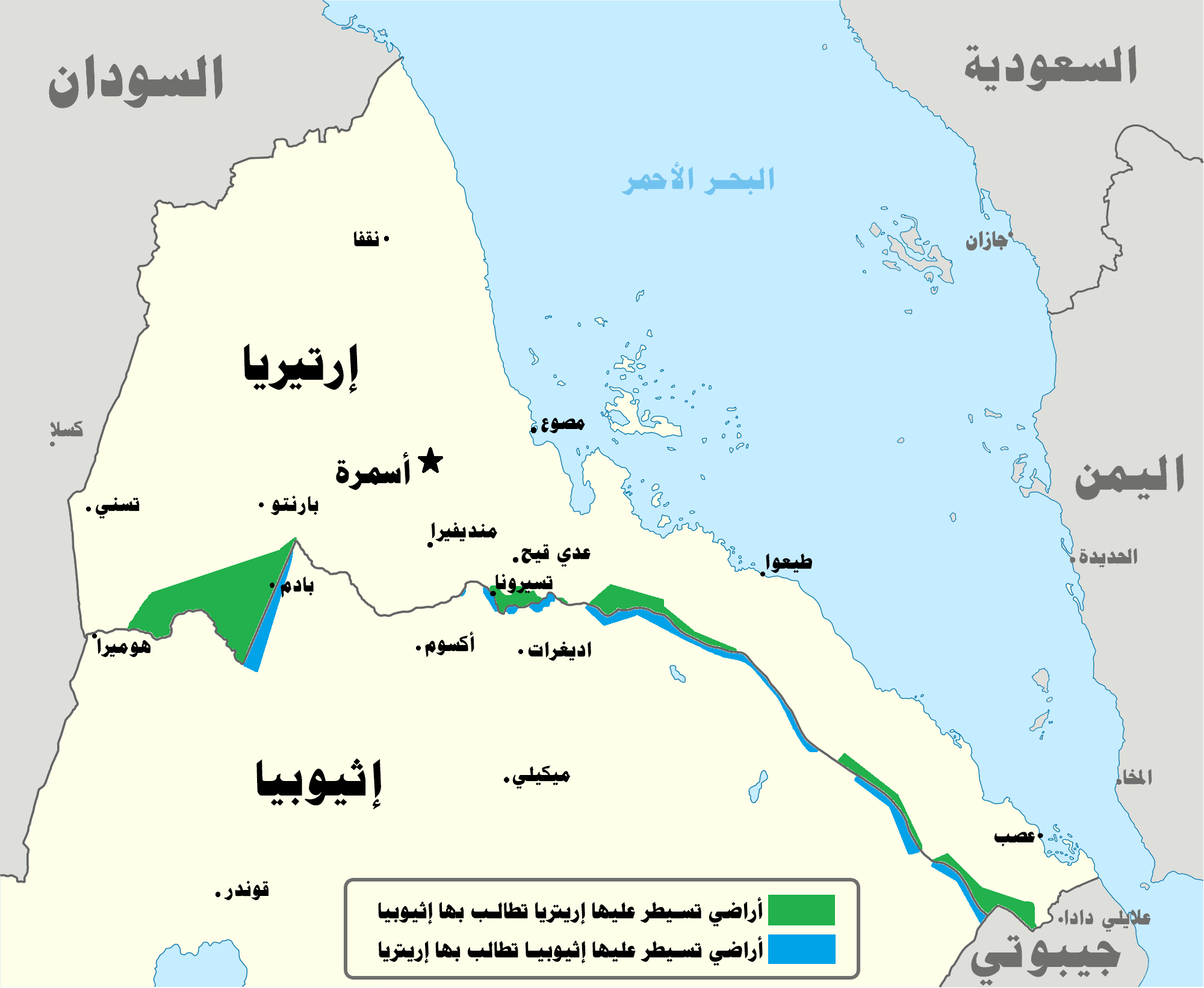 Eritrean–Ethiopian War Map 1998